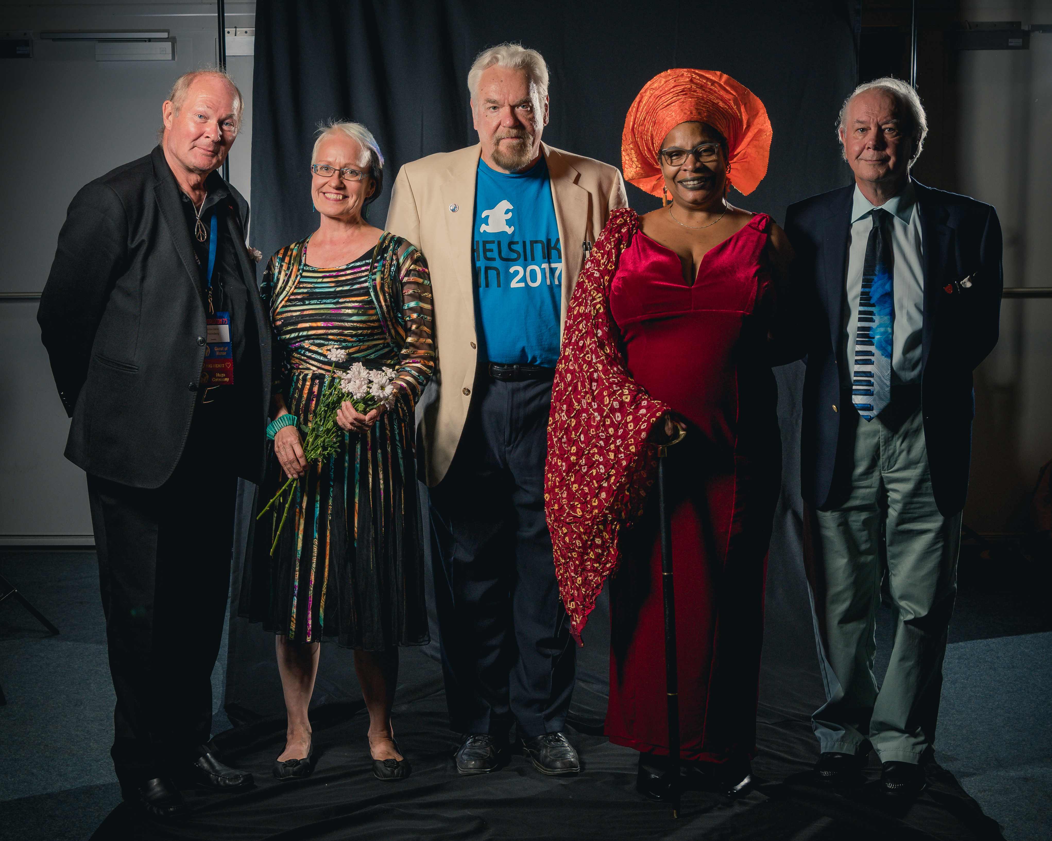 Portrait photoshoot at Worldcon 75, Helsinki, before the Hugo Awards: John-Henri Holmberg, Johanna Sinisalo, Walter Jon Williams, Nalo Hopkinson and Ian Stewart